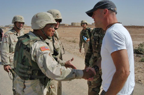 American actor Bruce Willis is greeted by BG Albert Bryant, Jr, Assistant Division Commander, 4th Infantry Division (US Army) in Tikrit, Iraq, and deployed Army soldiers, during a USO-sponsored morale boosting trip by Willis and fellow American entertainers in September 2003.